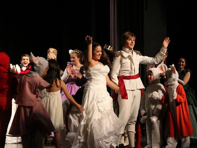 Bia Cinderella 2015 Drama